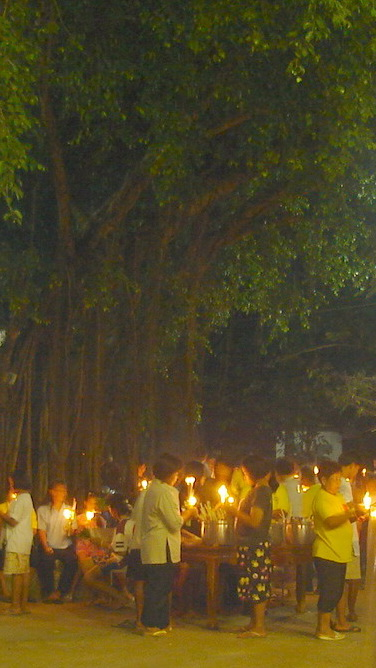 Magha Puja Location: Wat Khung Taphao Ban Khung Taphao, Khung Taphao subdistrict, Mueang Uttaradit, Uttaradit Province, Thailand.